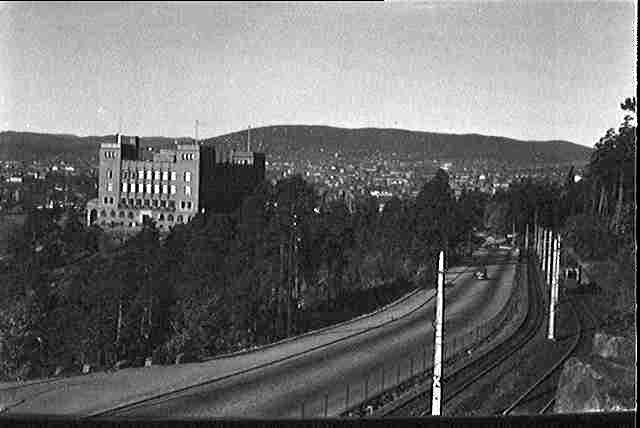 The Ekeberg Line near Sjømannsskolen.